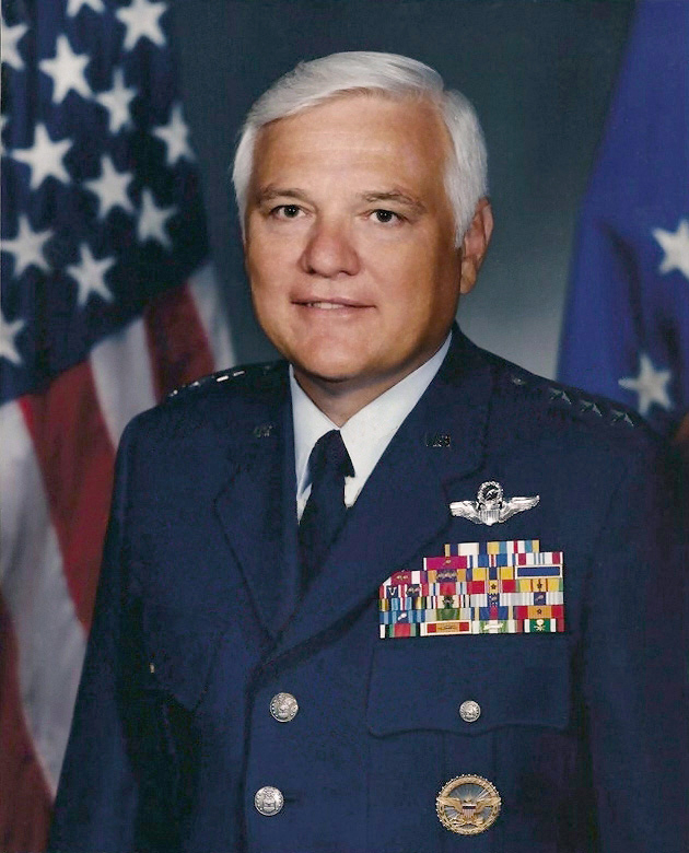 LGEN Buster C. Glosson